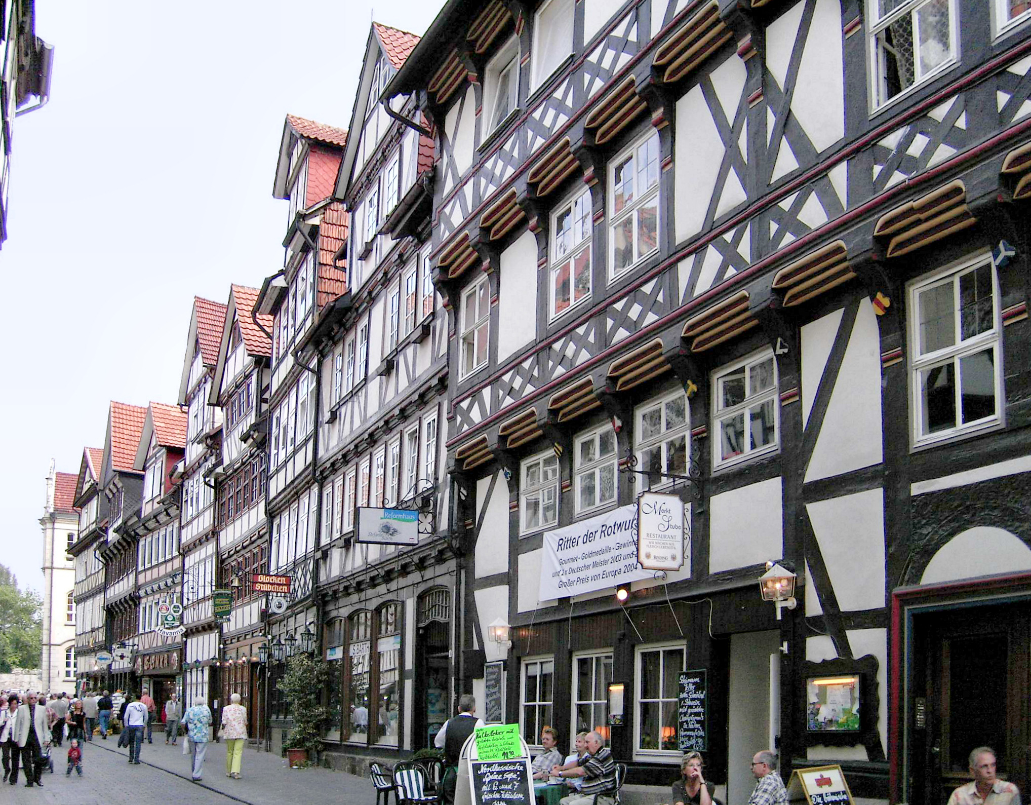 Hann. Münden, Germany. Timber framed house and related ornaments.